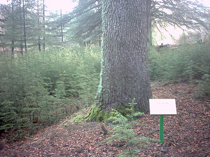 A work release by Francisco Javier Martin Lopez, Cedrus atlantica, in Arboretum "La Alfaguara" , Sierra de Huétor, Alfacar, province of Granada (Spain) 2006, January 7. A free donation to Wikipedia.